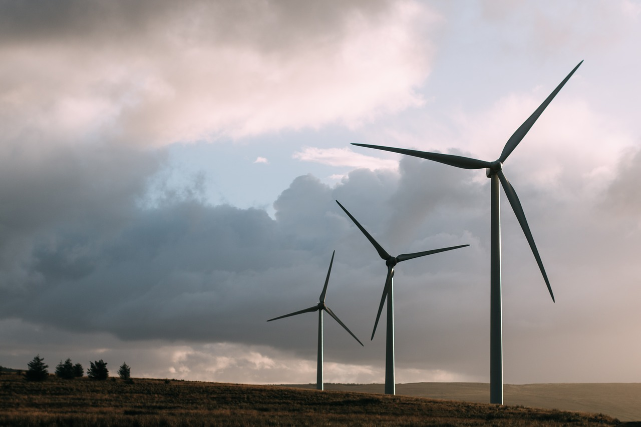 Three windmills in a storm.